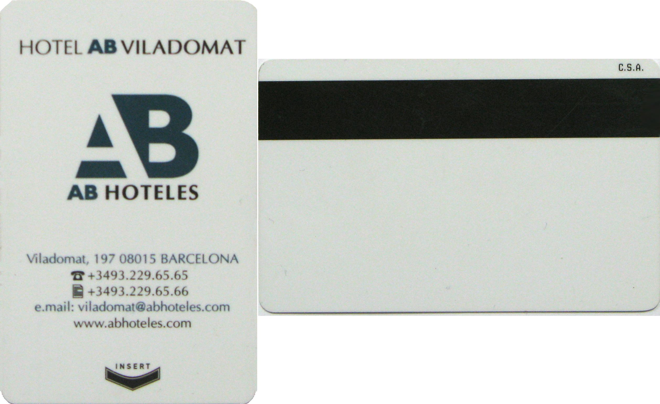 Magnetic stripe card - hotel key card